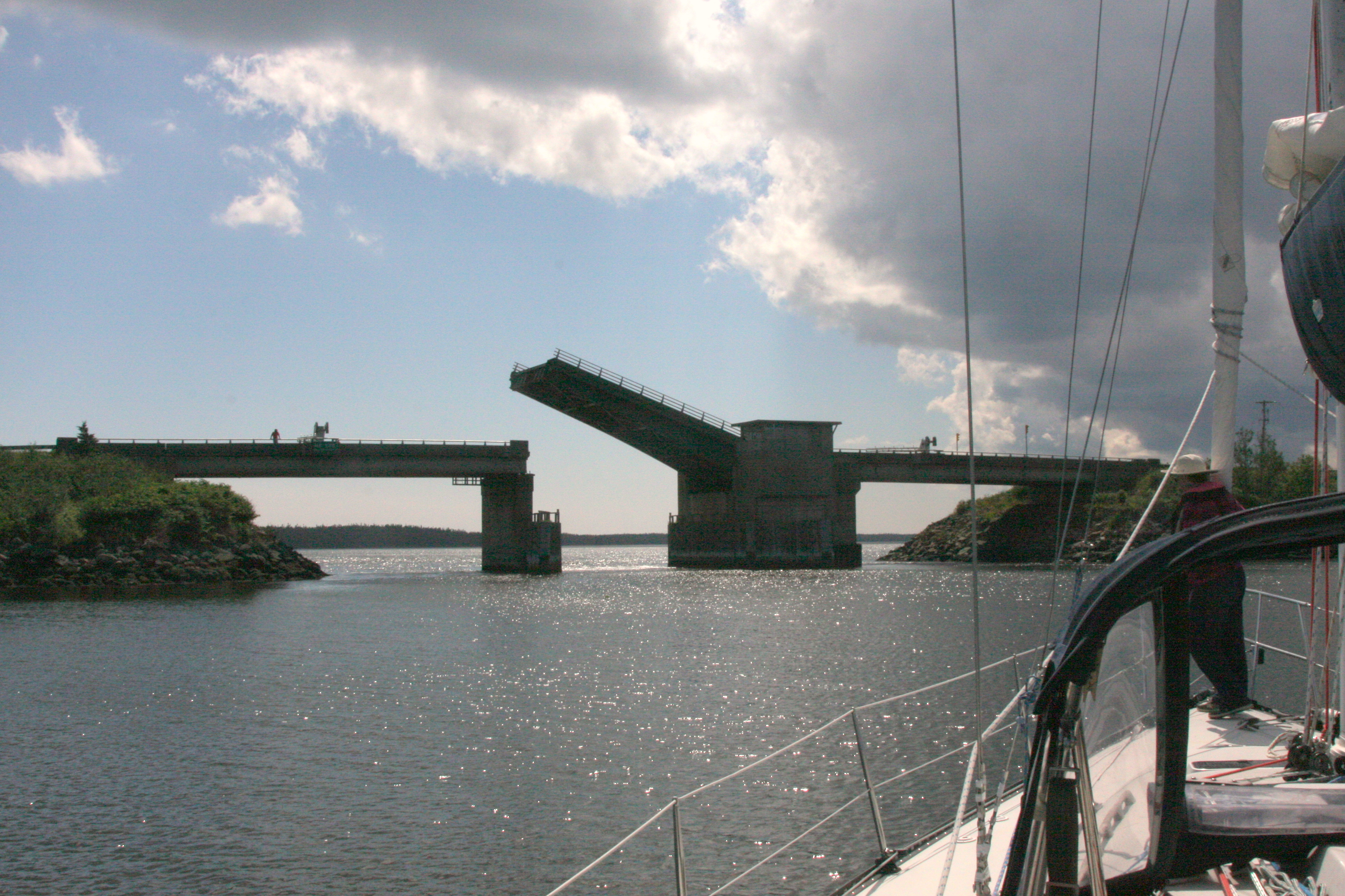 Lennox Passage is a navigable waterway between Cape Breton Island and Isle Madame in Nova Scotia, Canada. Small craft use the relatively protected Passage (also correctly referred to as a strait) traveling to and from St. Peters Canal at the village of St. Peter's and the Strait of Canso to avoid sailing around the east coast of Cape Breton in the open Atlantic Ocean. The Passage is approximately 10 nautical miles (16 km) in length from MacDonalds Shoal (near Janvrin Island) to Ouetique Island near D'Escousse with depths varying from 3 to 20 metres. Bridging the passage: Initially crossed by two ferries, (one from the present location of the bridge and one from Grandique Point to Grandique Ferry), construction of a swing bridge began in 1916 and was completed in 1919, connecting Isle Madame to Cape Breton. This bridge was horse-operated. Built in the 1970s, the electrically powered single-leaf bascule bridge (Lennox Passage Bridge) carries Nova Scotia Route 320, connecting Cape Breton Island and Isle Madame.